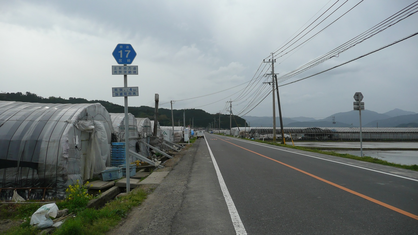 Miyazaki Prefectural Road 17 (Kunitomi Town, Miyazaki, Japan)